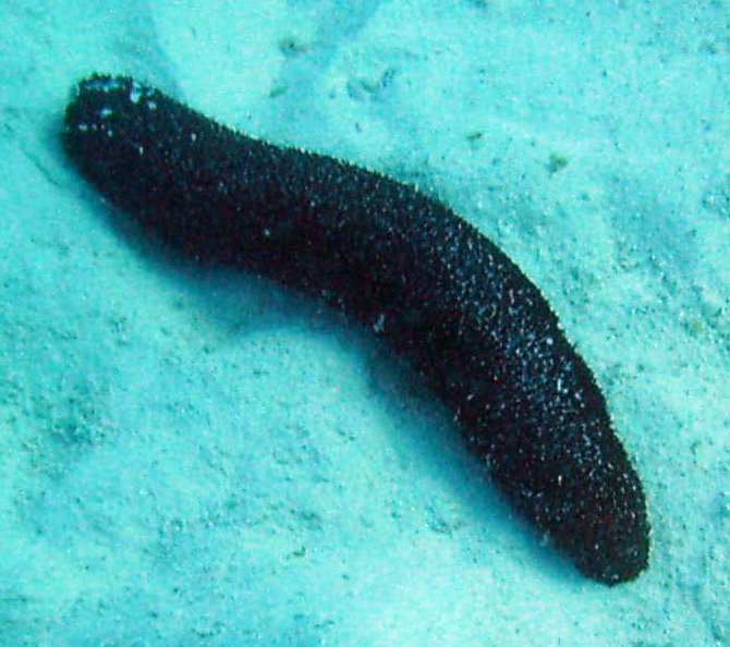 A dark Sea Cucumber (maybe genus Actinopyga), photography by Jacinta Richardson and Paul Fenwick. Photograph taken in a lagoon near Lady Musgrave Island in the Great Barrier Reef, 28th December 2004. Approximate depth of 6 metres. Colours have been enhanced using the GIMP to correct for loss of colour underwater.